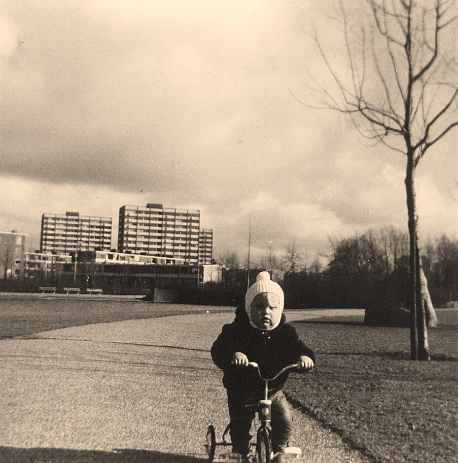 José Luis Castillo in Holland in the early 1970s.